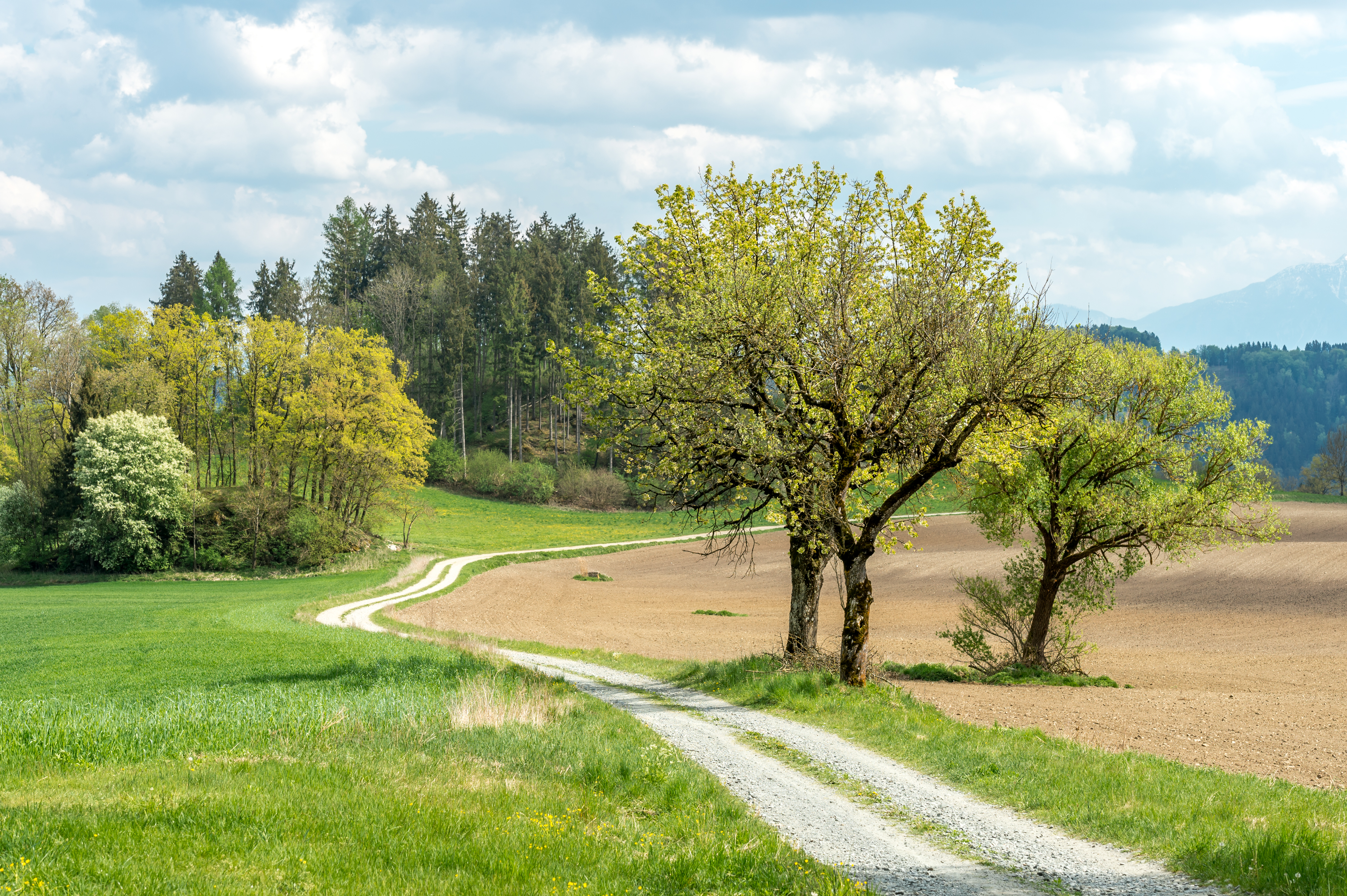 Landscape of Rosenbichl, market town Liebenfels, district Sankt Veit, Carinthia, Austria, EU